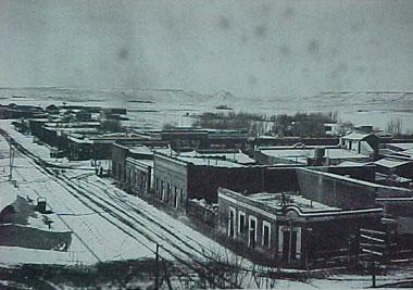 View of Zapala around 1920s.